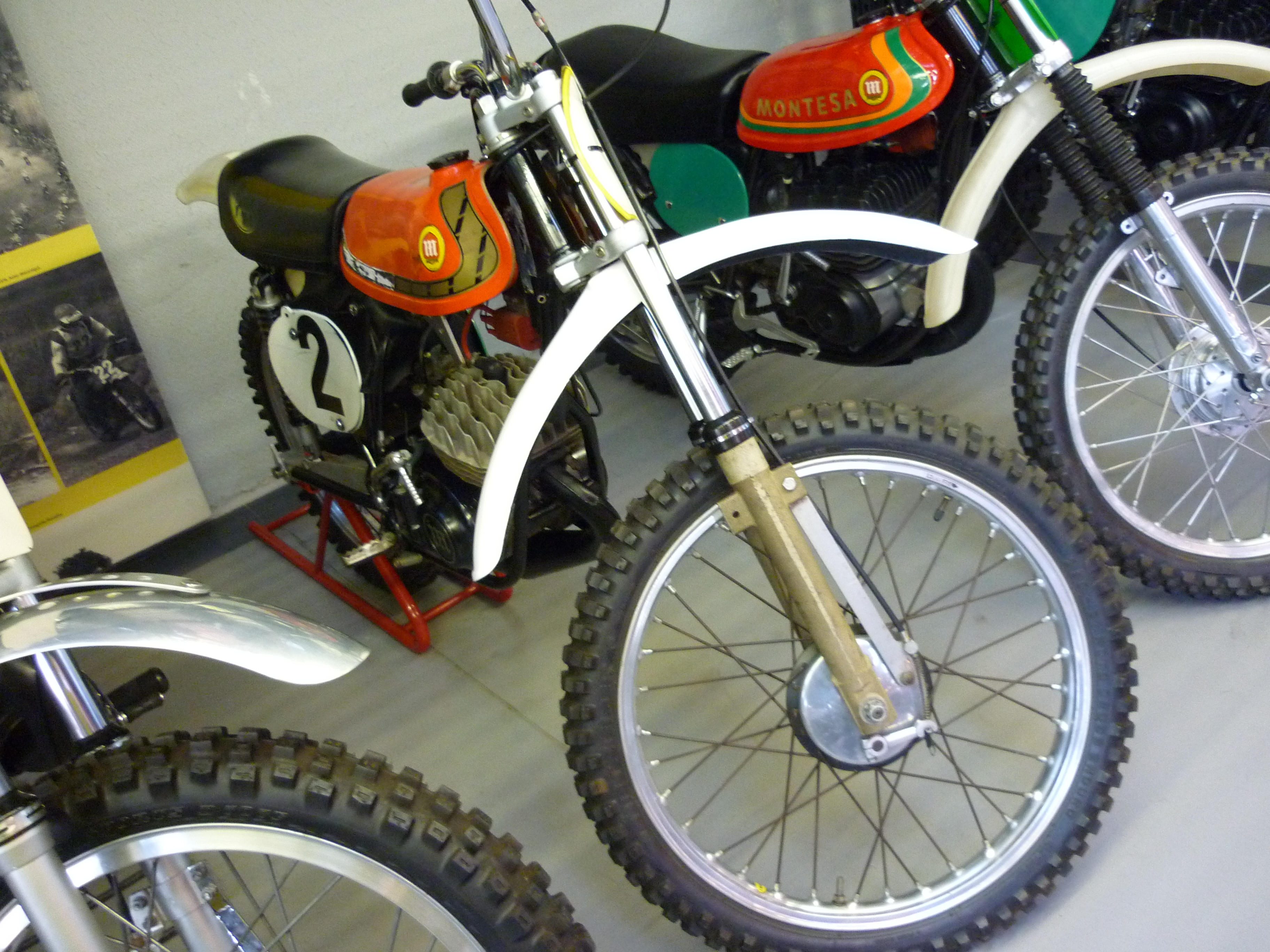 Montesa Cappra 75 from 1976, with the number 2 (whith this bike, Toni Arcarons won the 75cc Spanish Championship in 1976)